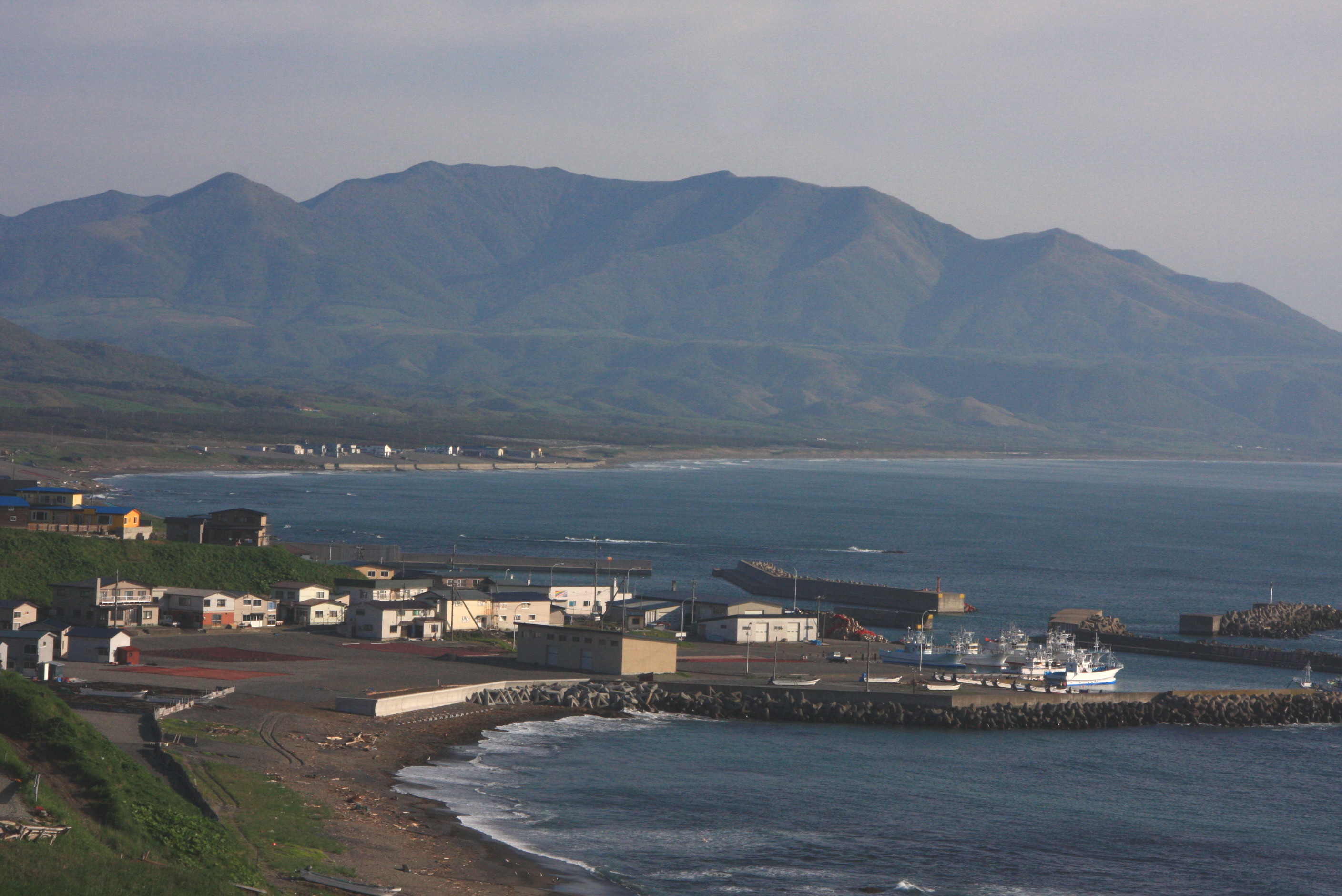 Mount Toyoni (Toyoni-dake) as seen from Cape Erimo